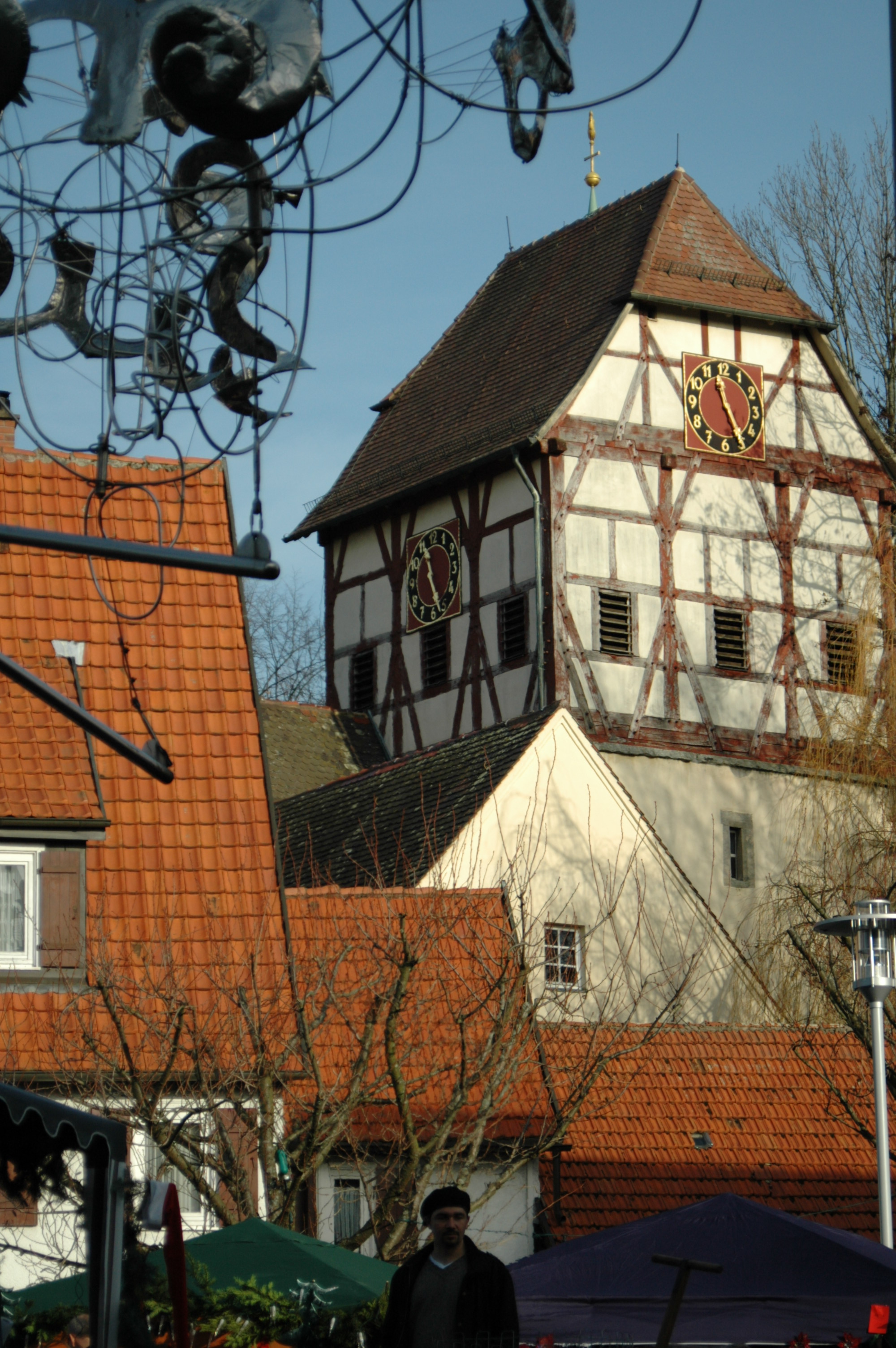 Laurentius Church Tower in Maichingen